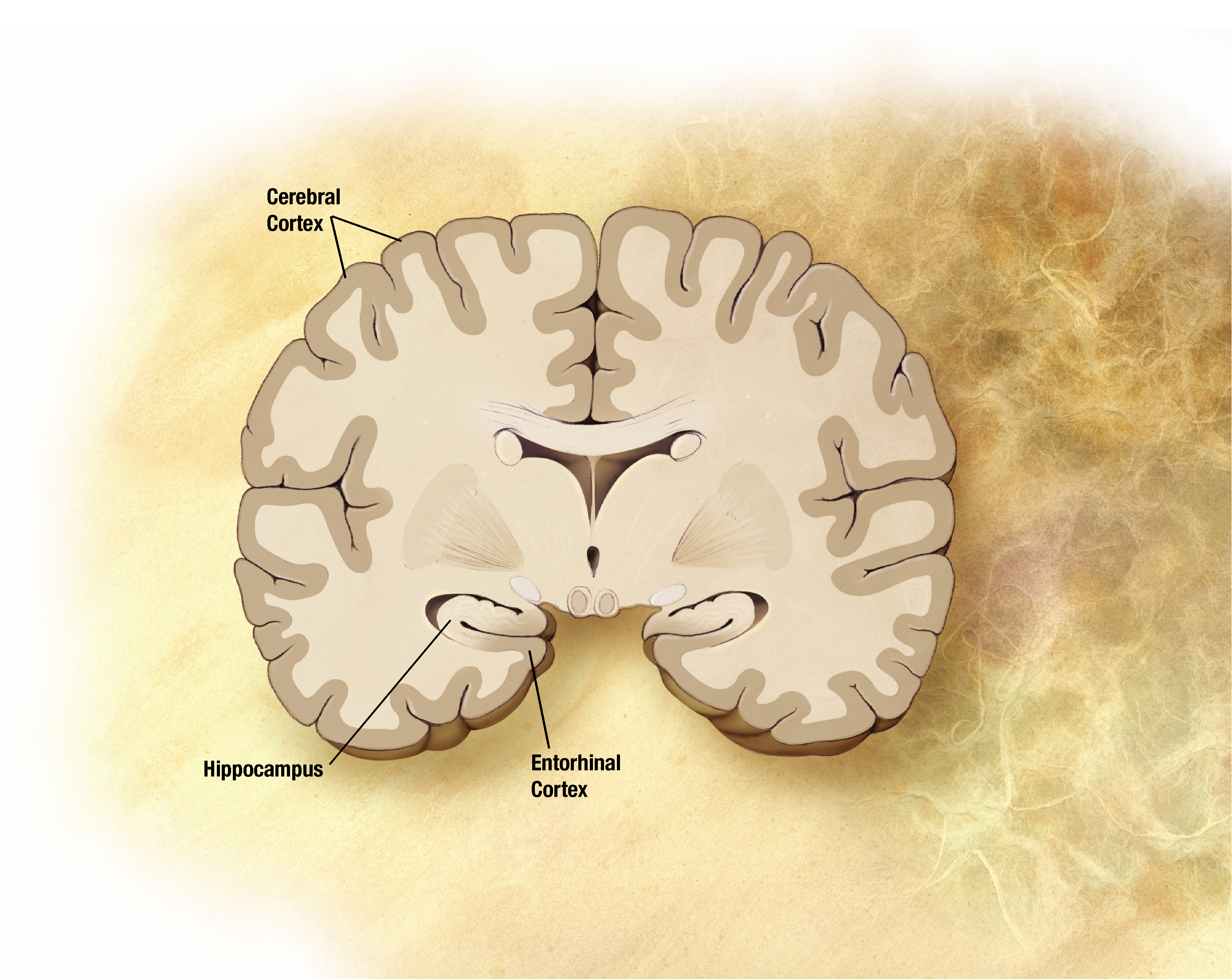 Diagram of a normal brain